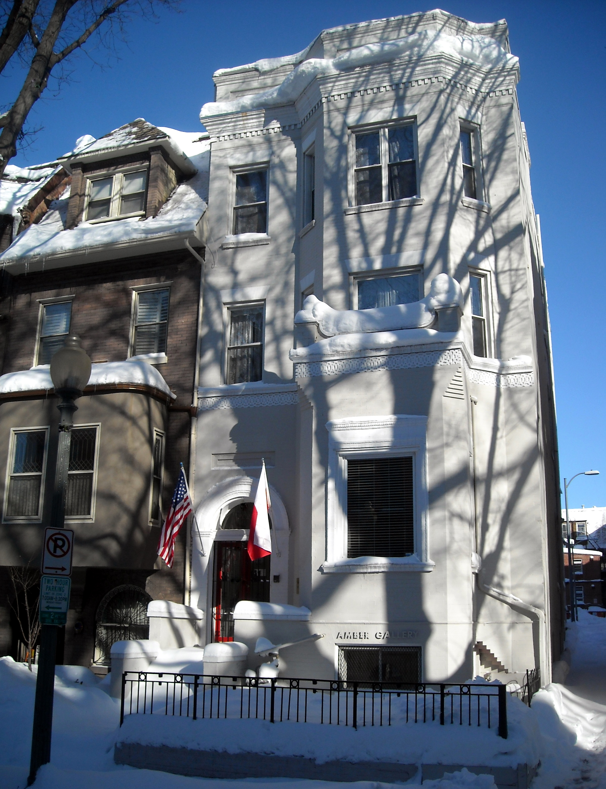 The National Polish Center (first – third floors; formerly known as the American Center of Polish Culture; acquired by The Kosciuszko Foundation in 2010) and the Amber Gallery (lower level), located at 2025 O Street, N.W., in the Dupont Circle neighborhood of Washington, D.C., following the Second North American blizzard of 2010. Former occupants of 2025 O Street, N.W., include Colonel Charles L. Heizmann (director of the Army Medical Museum), Colombian ambassador Clímaco Calderón, Colonel Valery Havard (director of the Army Medical Museum), the eighth Librarian of Congress Herbert Putnam, and artist Eliot O'Hara.